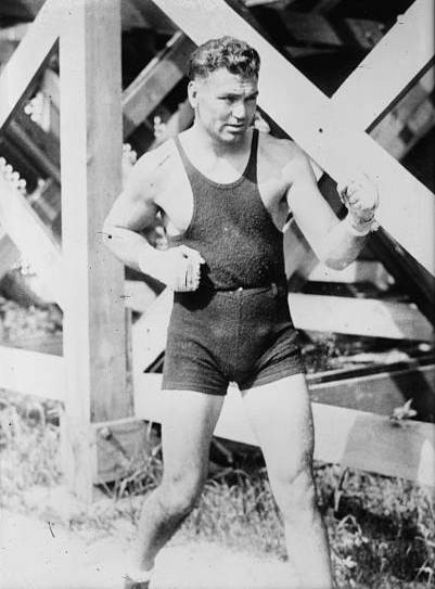 Jack Dempsey, American boxer